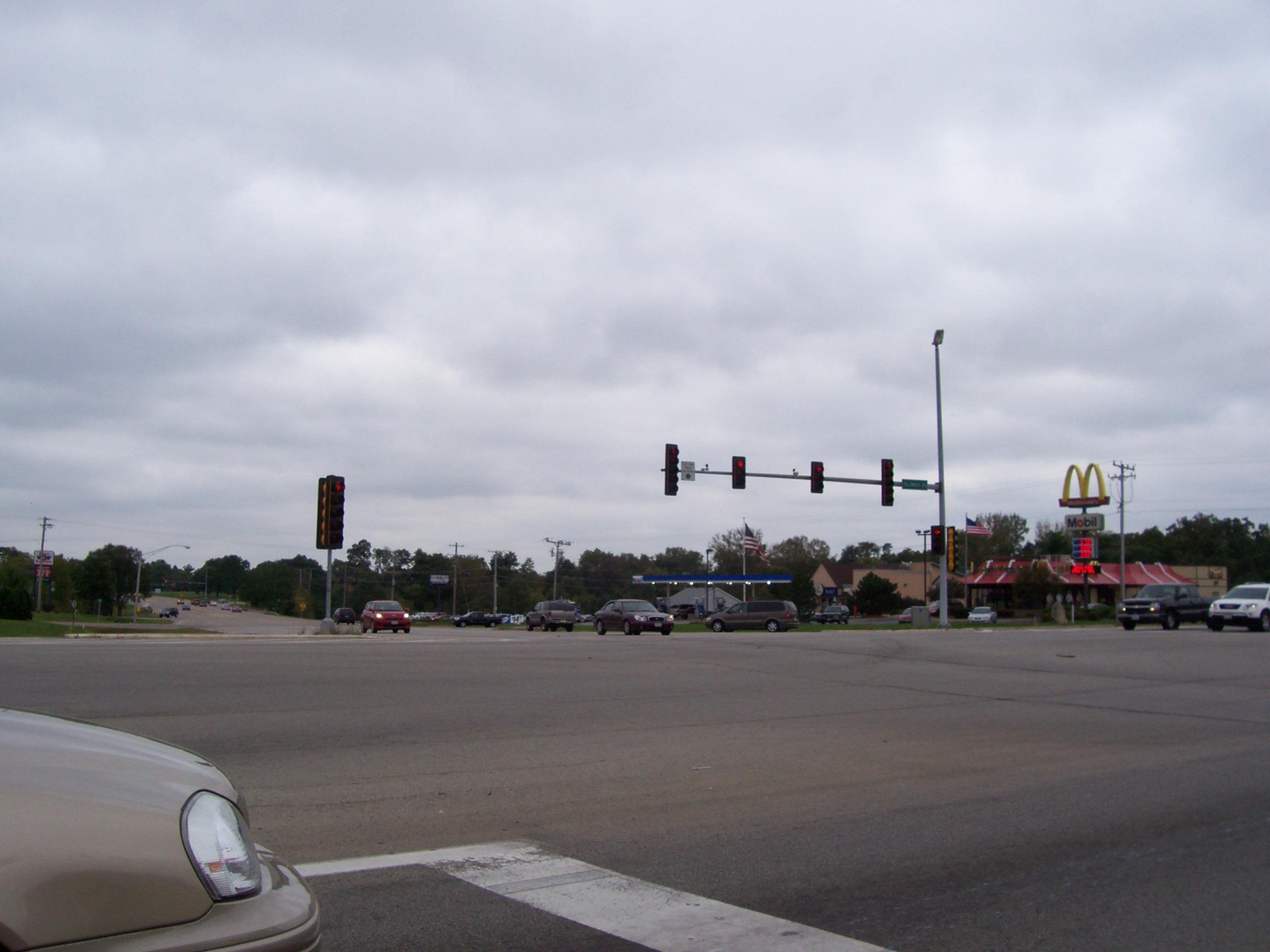 Looking east at businesses in Roscoe, Illinois on Illinois Route 251.